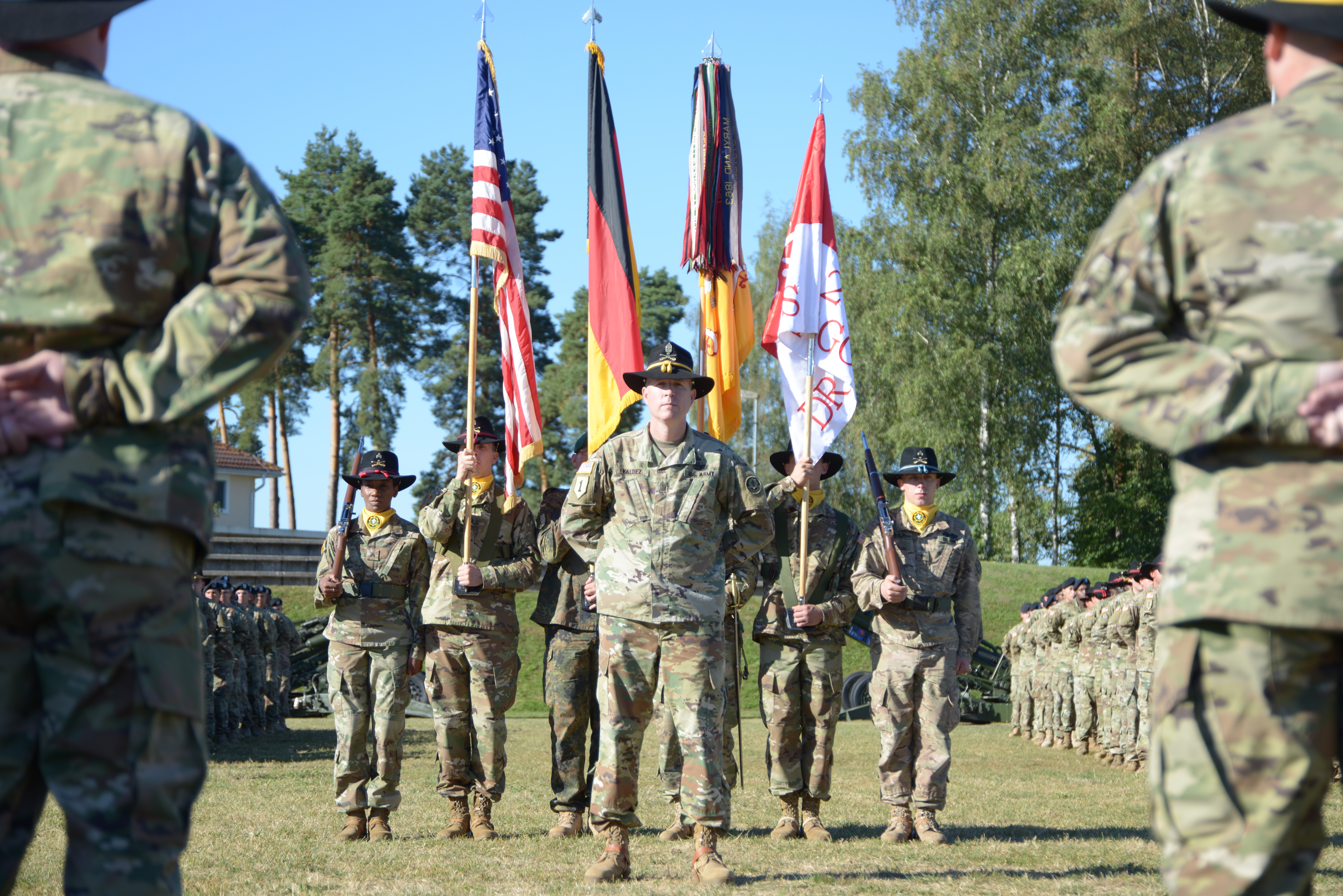 U.S. Soldiers, assigned to 2nd Cavalry Regiment, participate the unit’s change of responsibility ceremony on Rose Barracks, Vilseck, Germany, Aug. 31, 2016. (U.S. Army photo by Christoph Koppers) Unit: Training Support Activity Europe